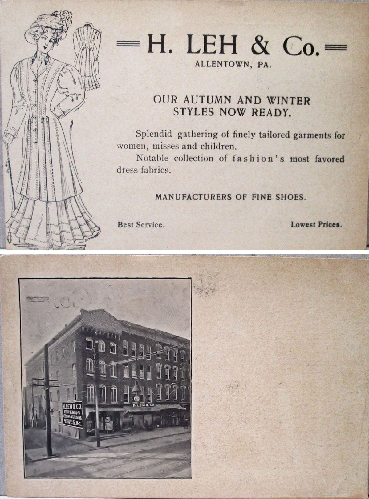 1870 - H Leh & Company - Trade Card